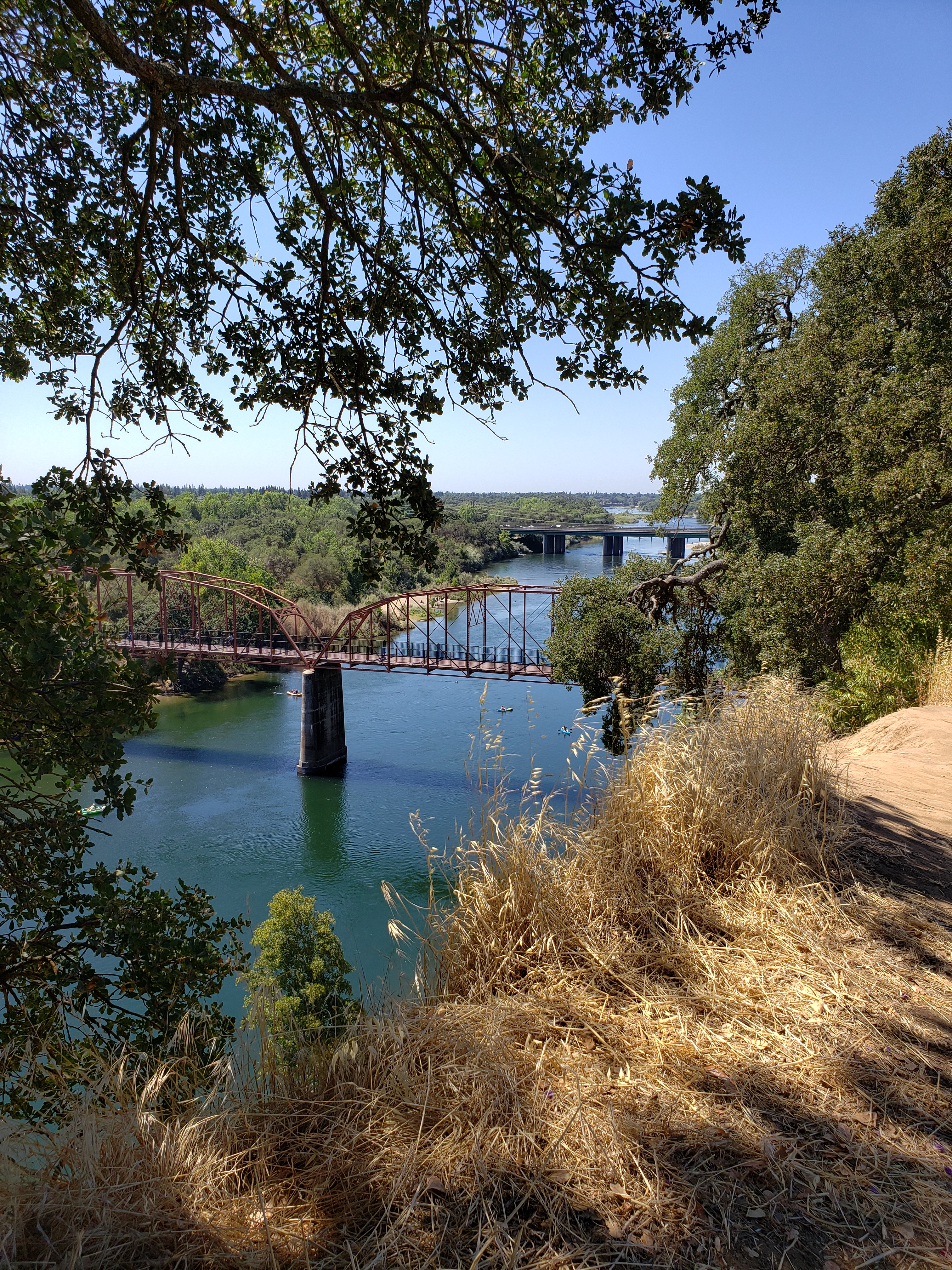 Two of three Fair Oaks bridges can clearly be seen in this photo. The third bridge is hidden behind the second.